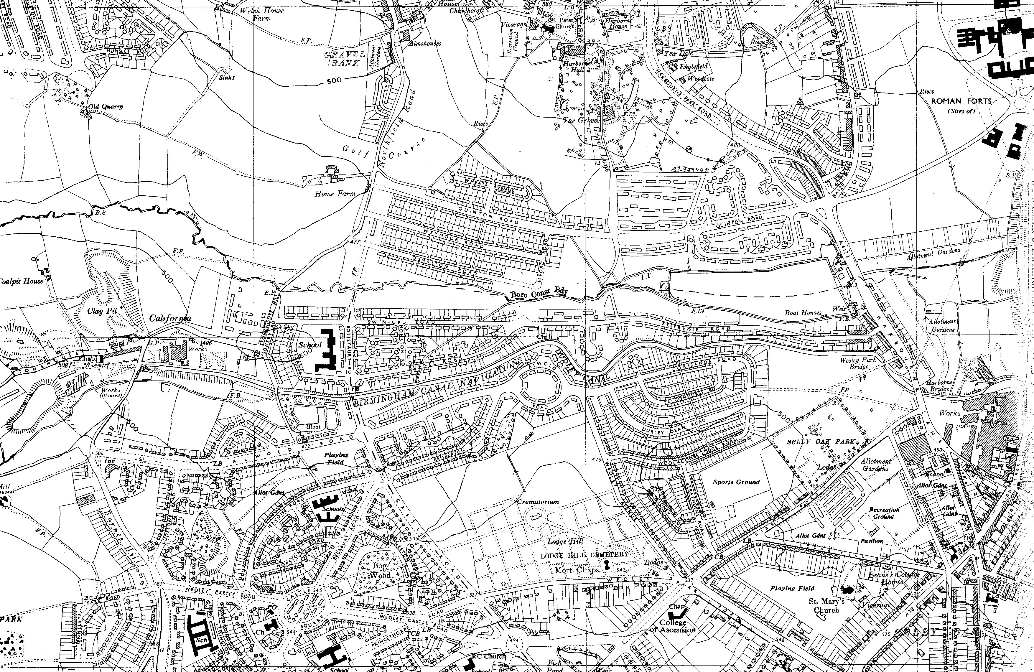 Old OS map of the eastern portal of the Lapal Tunnel on the, now disused and dry, Selly Oak arm of the Dudley Canal in England. The portal is below the letter "a" of "California", near the horizontal centre line, 20% from the left. Selly Oak Junction (the terminus) is on the extreme right at the same latitude.